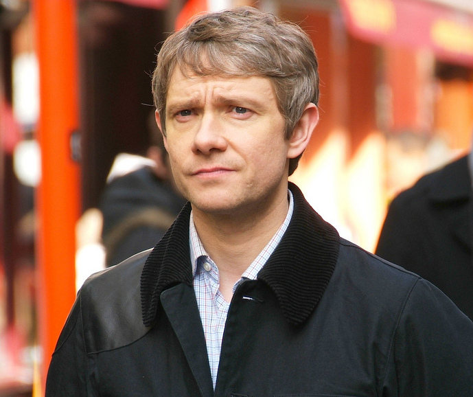 Chinatown, London. Martin Freeman during filming of Sherlock.